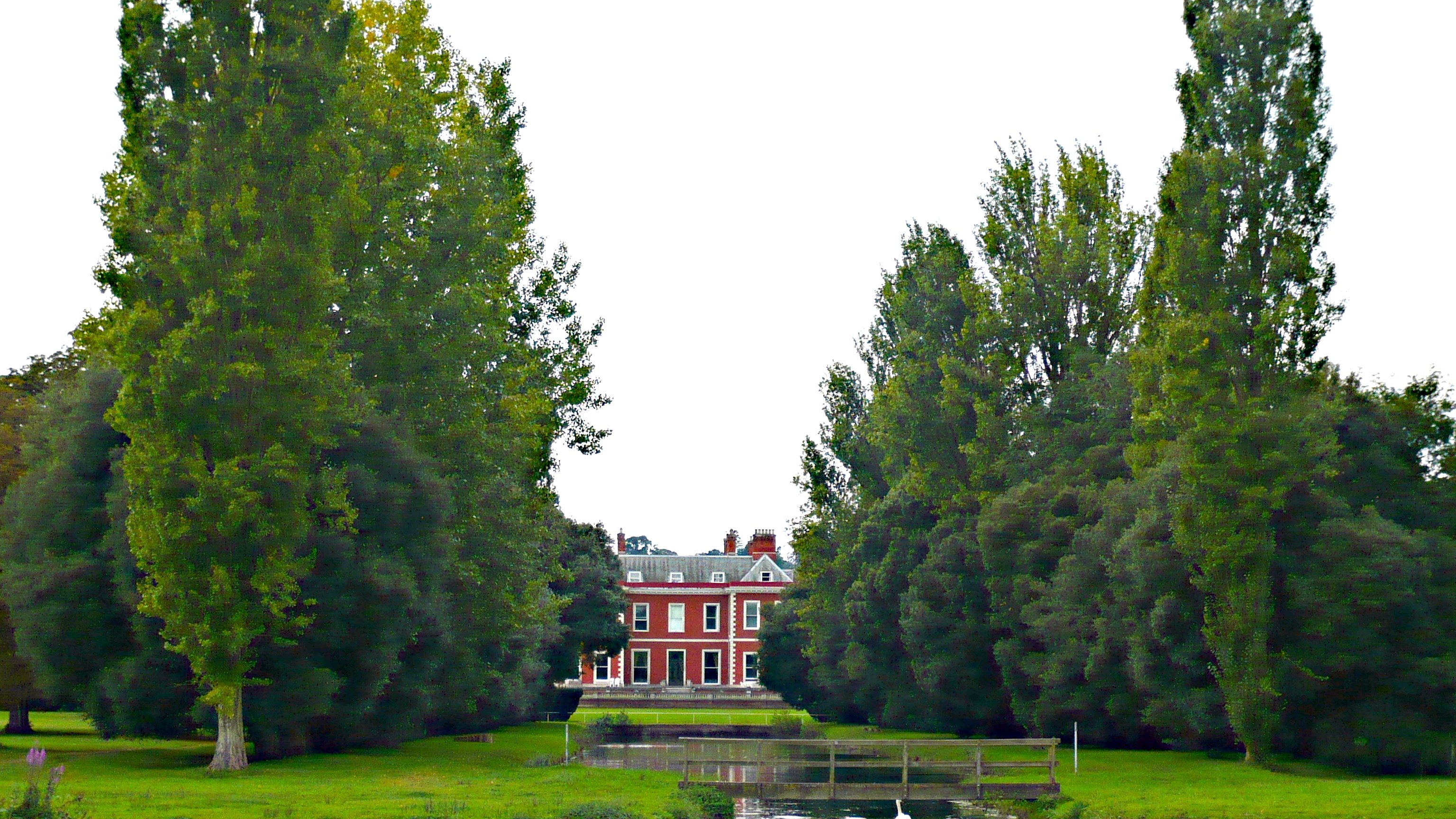 Henley, Fawley Court by Christopher Wren.